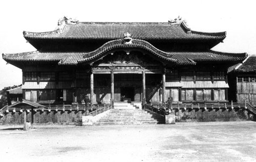 Main pavilion of Shuri Castle in June 1934. It was destroyed by U.S. bombardment of Battle of Okinawa in May 1945.